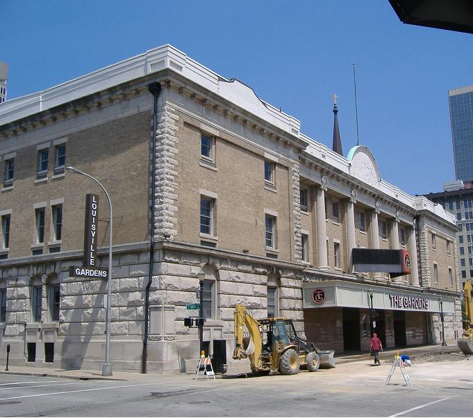 Picture of Louisville Gardens in Louisville, Kentucky. Roadwork is being taken place.